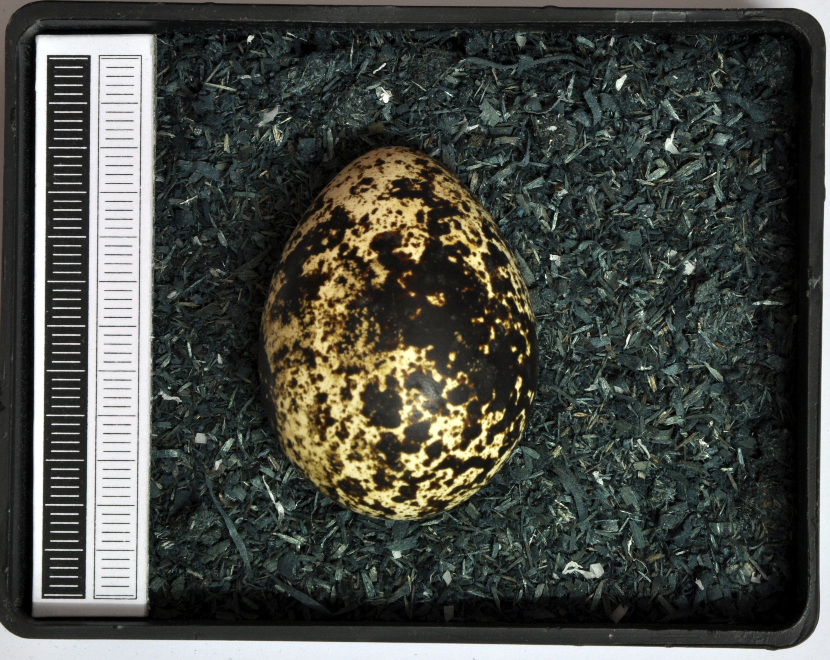 Willow ptarmigan Lagopus lagopus, egg, Coll. Museum Wiesbaden, leg. W. Abelmann